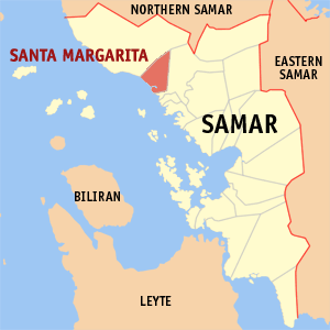 Map of Samar showing the location of Santa Margarita